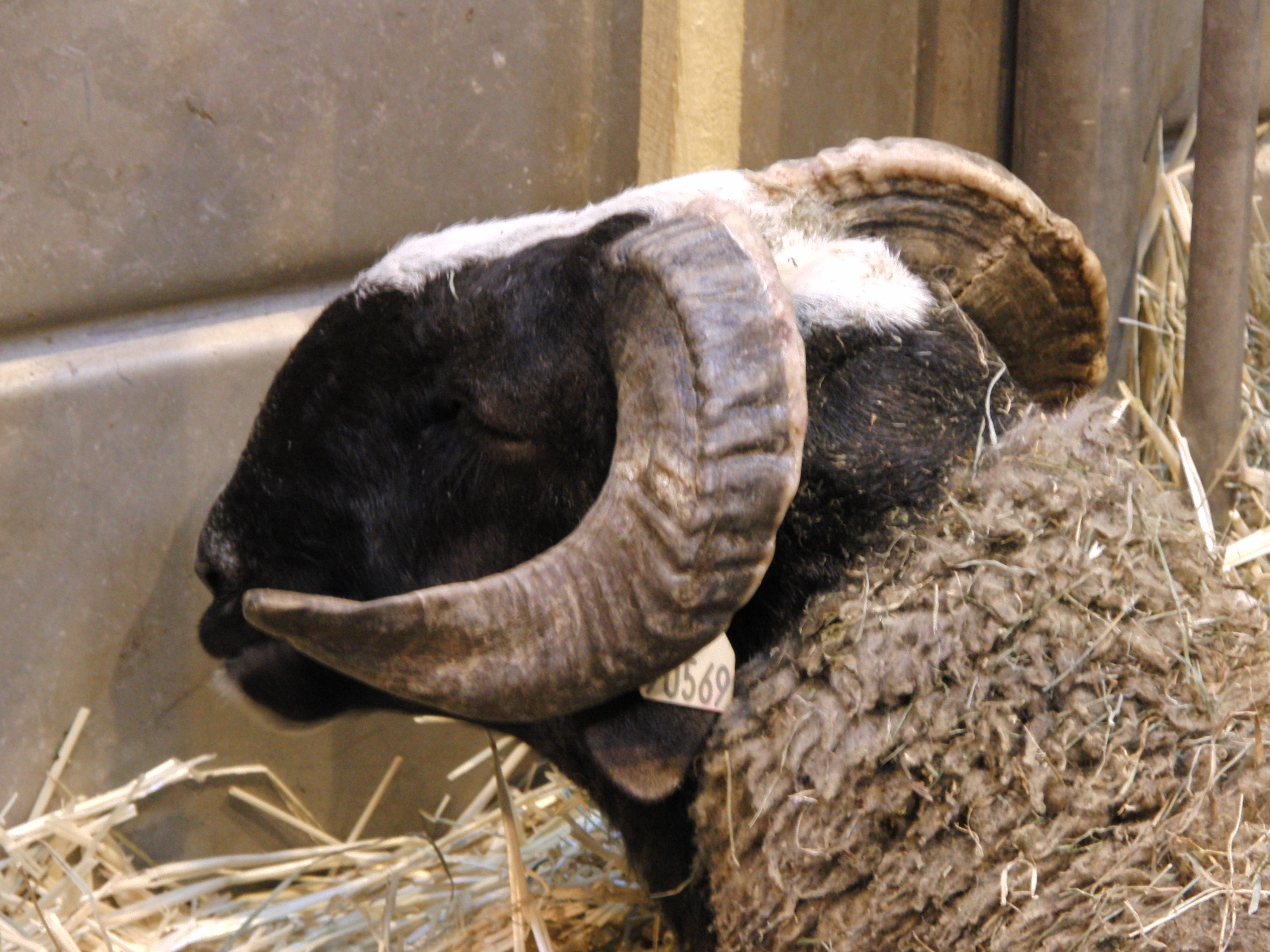 Bizet sheep's head - Salon international de l'agriculture 2011, Paris, France